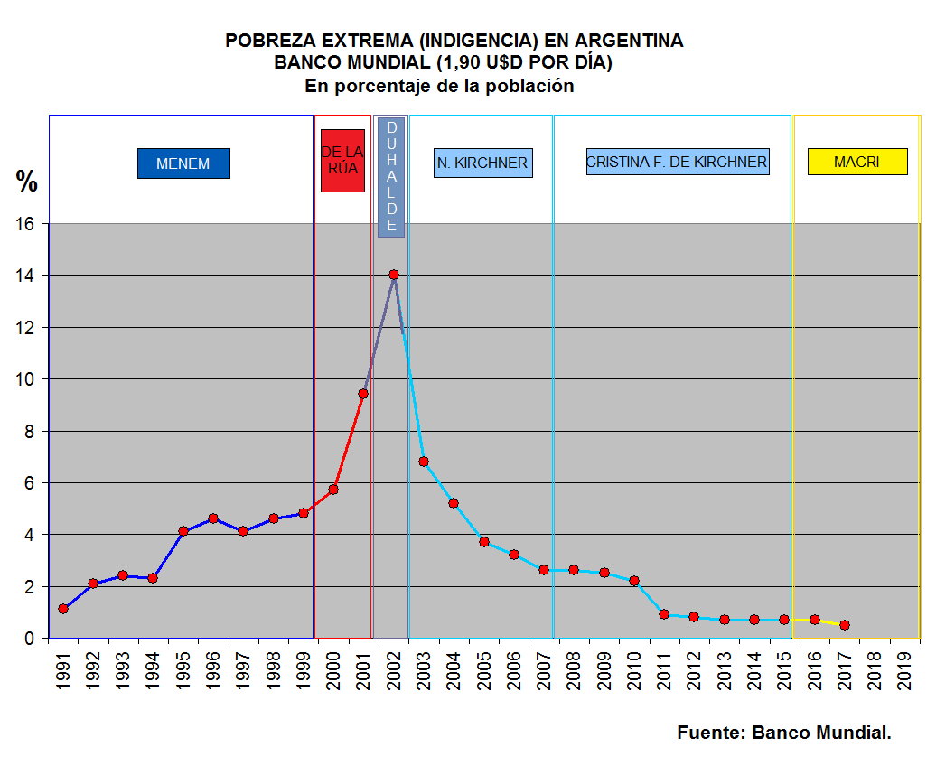 Evolution of poverty in Argentina. 1991-2017. By Presidencies. Measured by World Bank method (1,90 USD by day). Source: World Bank.